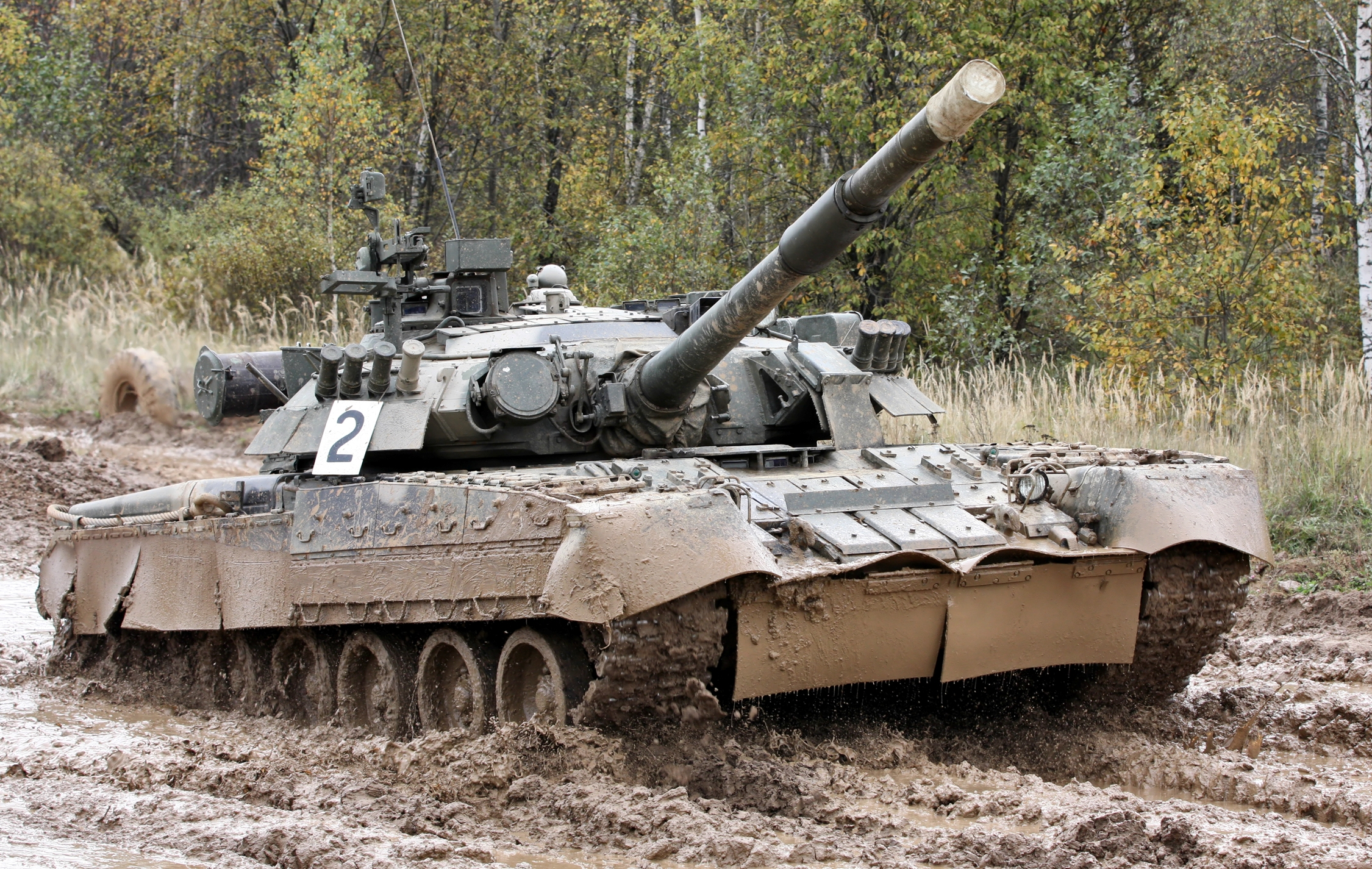 Russian T-80U of the 4th Tank Brigade.